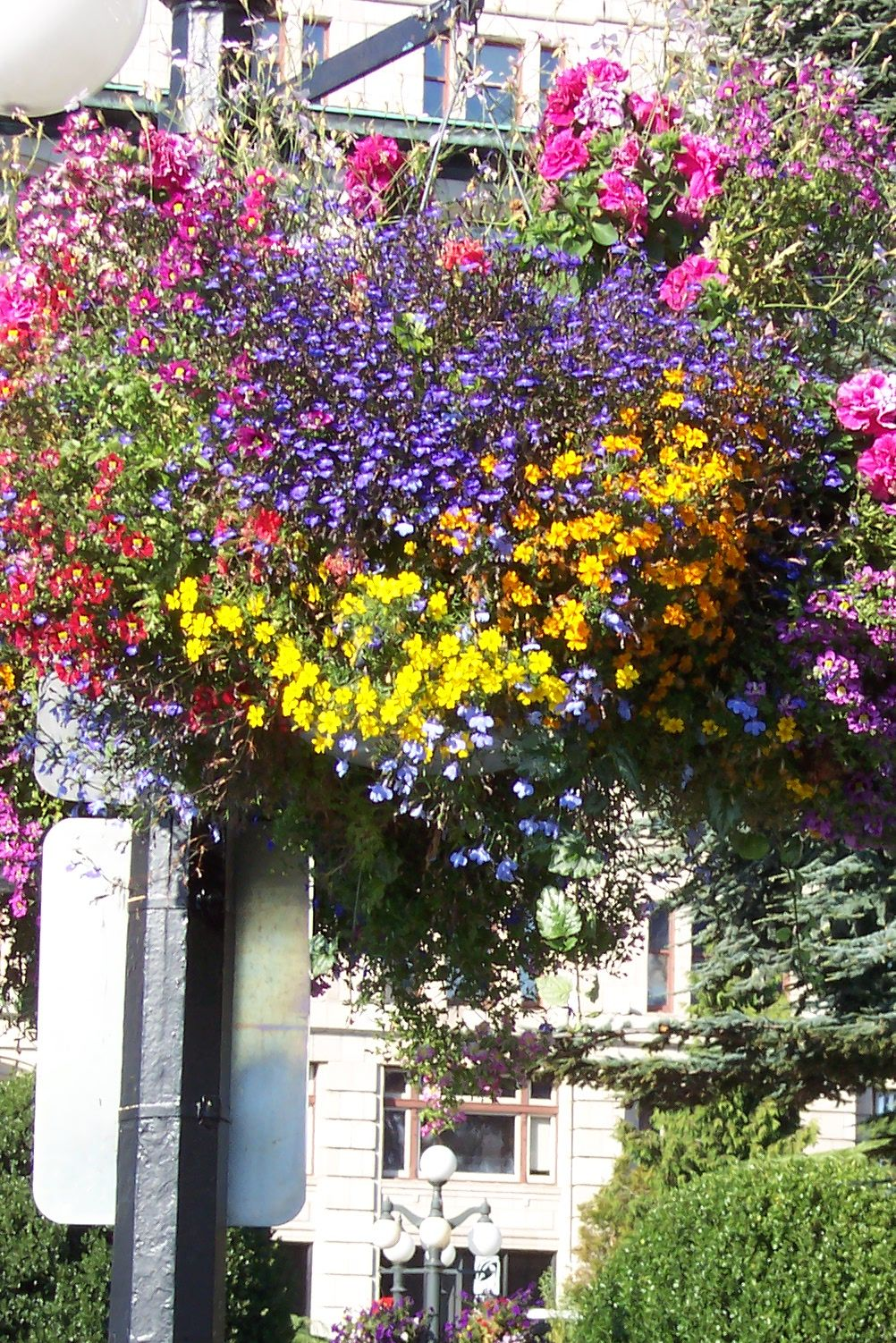 A hanging flower basket on the street lamppost in Victoria, British Columbia.